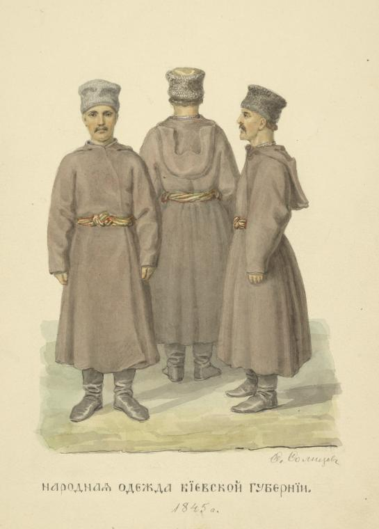 National clothes from province of Kiev. 1845.